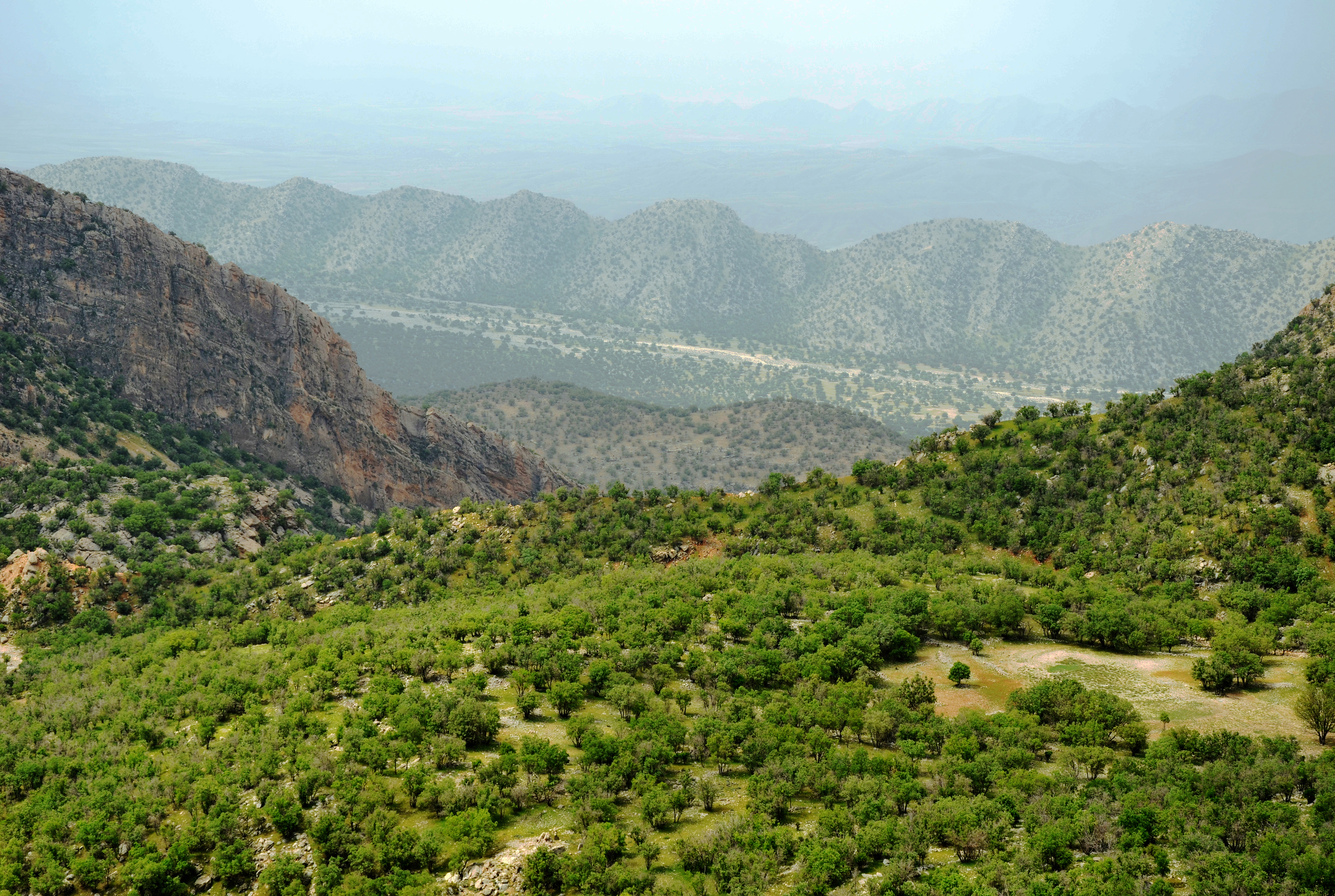 Iran - Fars - Nature of Kazerun Road